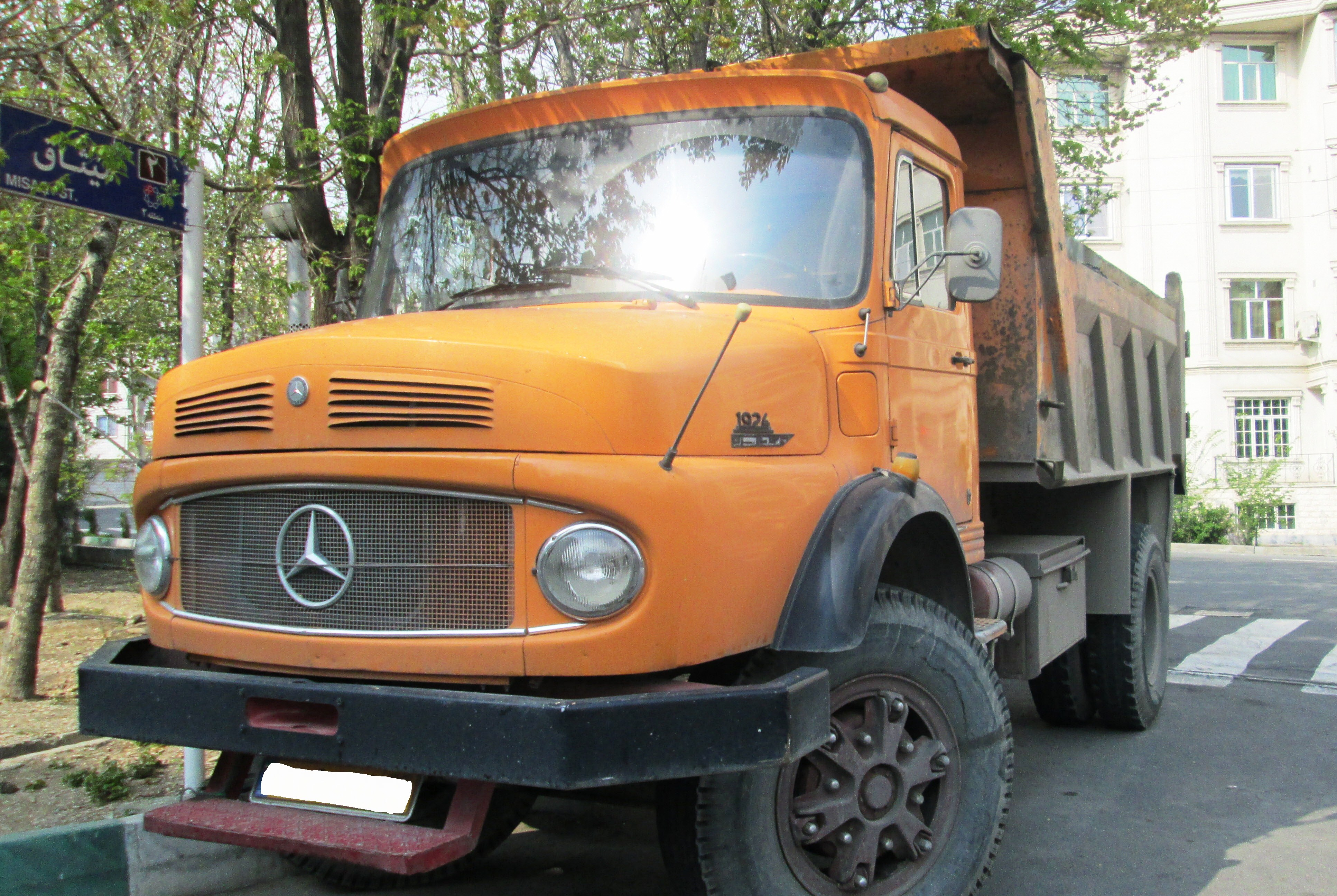 Mercedes Benz LK 1924 , Made by Iran Khodro Diesel. photographed in tehran , Persia